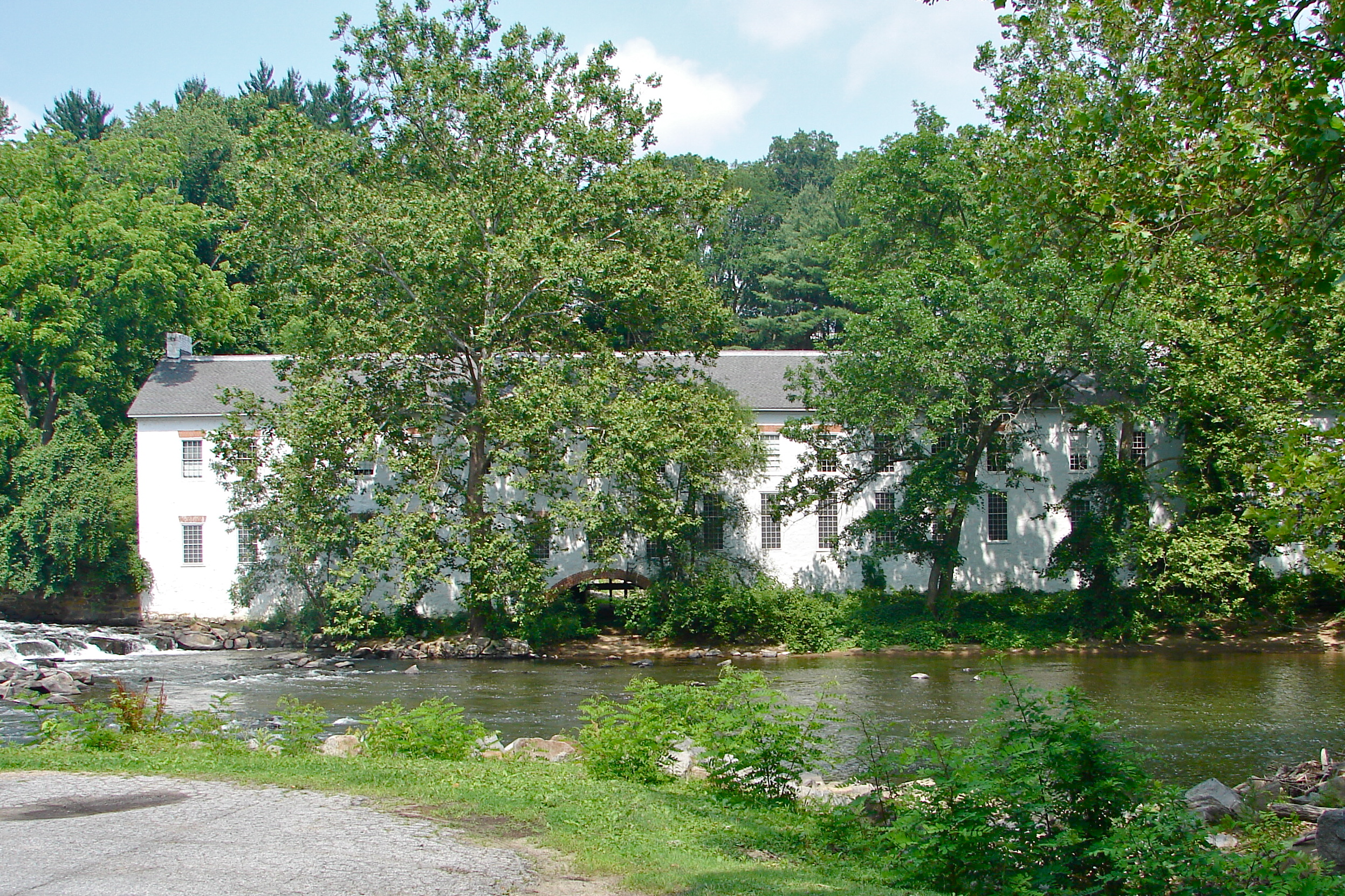 Walker's Mill and Walker's Bank on the NRHP since February 1, 1972. North of Wilmington on eastern bank of Brandywine Creek at Rising Sun Lane Bridge, Wilmington, Delaware. I believe it is owned by the Du Pont family. Near Hagley Museum and across the creek from Breck's Mill, both also on the NRHP